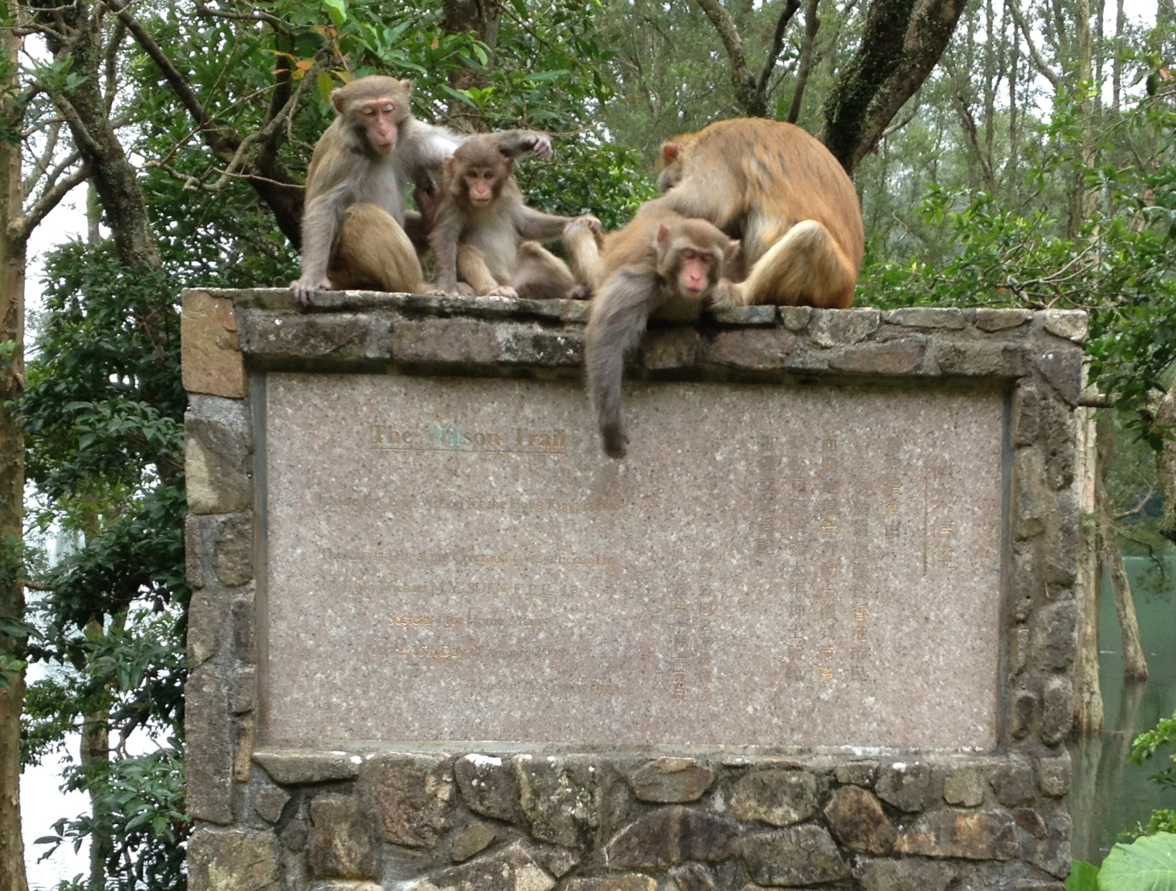 Wilson Trail, Section 7, a family of Rhesus Macaques waiting for picnickers to leave food behind